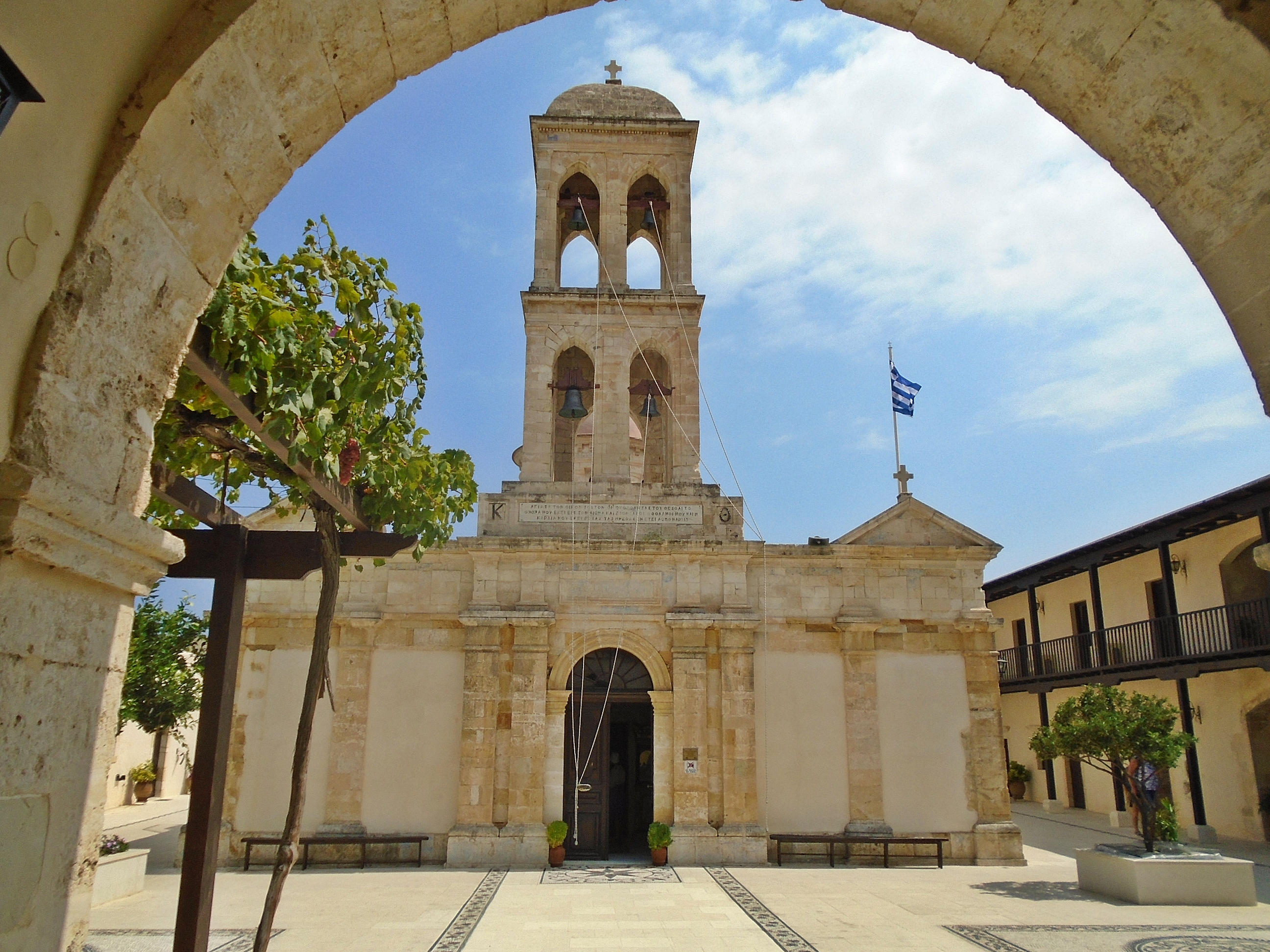 Gonia Monastery church and courtyard, Kolymbari, Crete